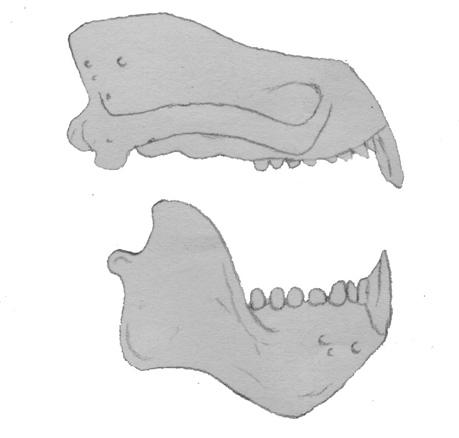 Skull of Stylinodon, a taeniodont mammal